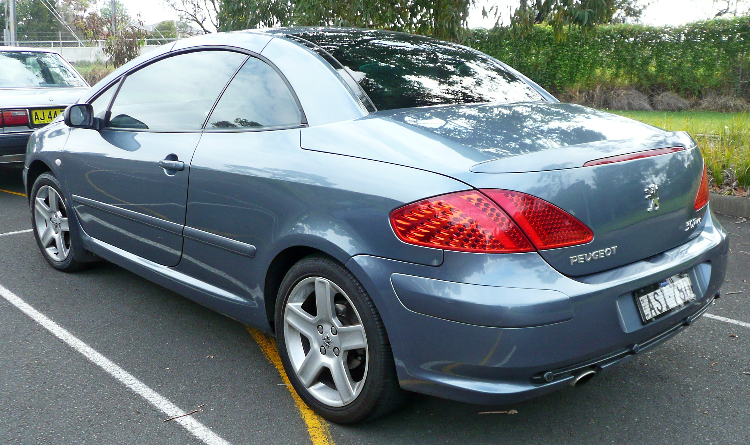 2004 Peugeot 307 (T5 MY03) CC Sport convertible. Photographed in Loftus, New South Wales, Australia.